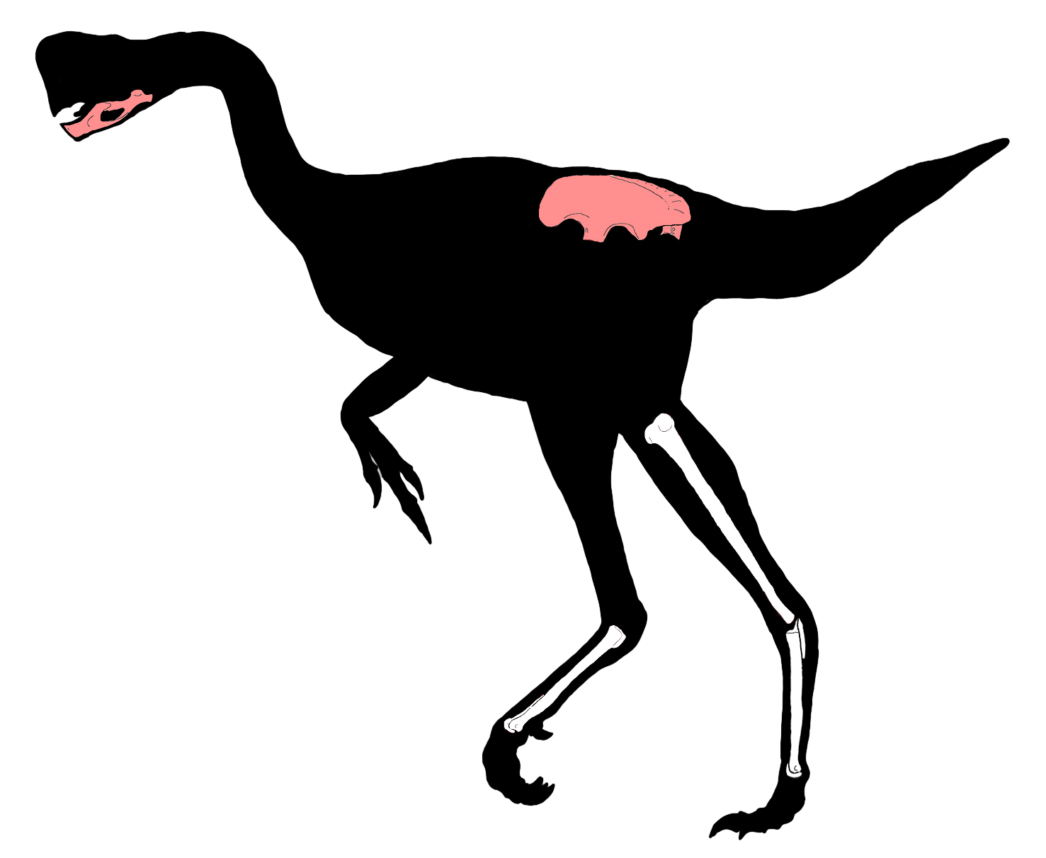 Skeletal reconstruction of Citipes elegans. Previously referred material is indicated in white and newly referred material is indicated in red.